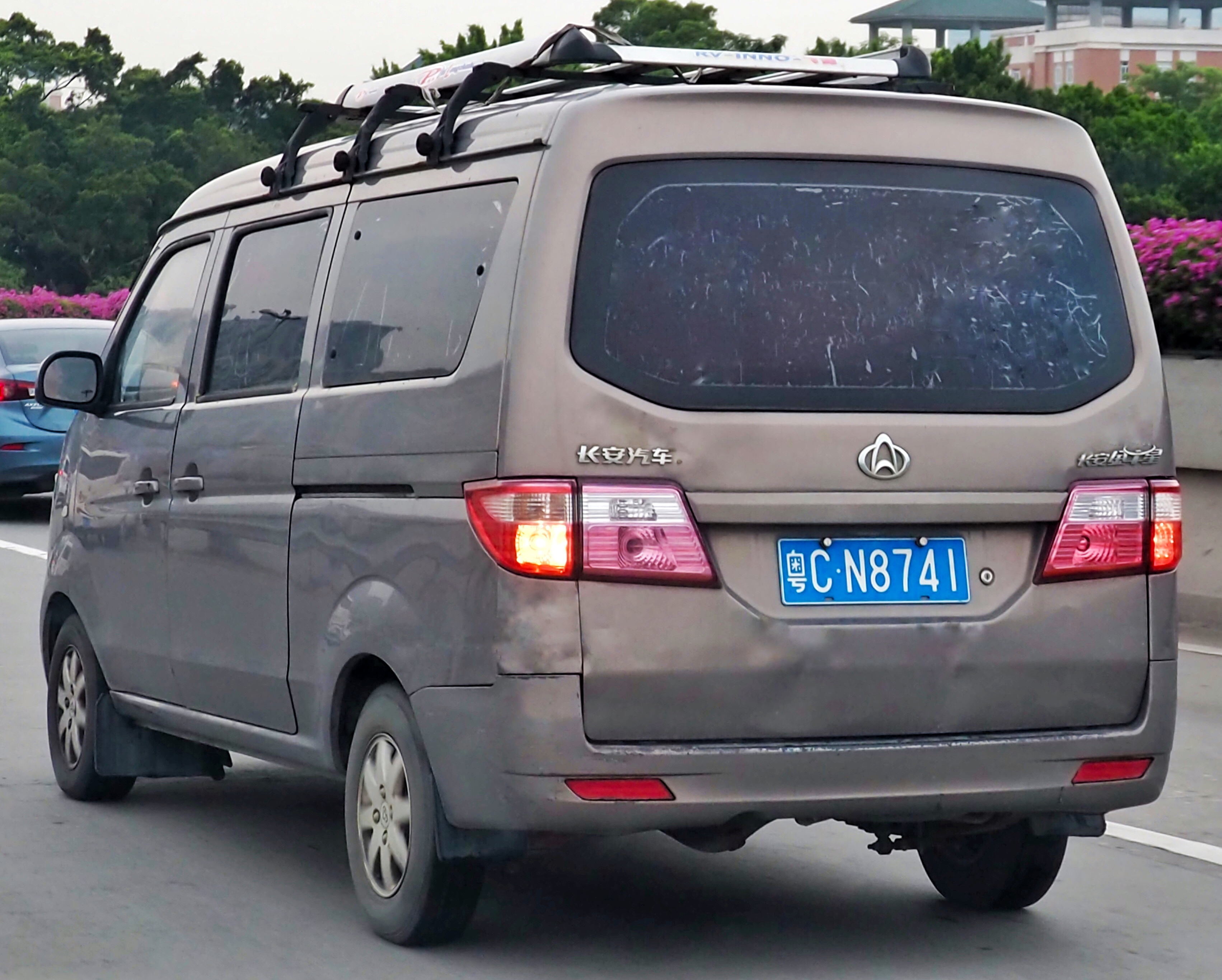 A 2010 Chana Taurustar taken in Guangzhou, Guangdong province, China. 中文（中国大陆）: 一辆2010年的长安金牛星，摄于中国广东省广州市。